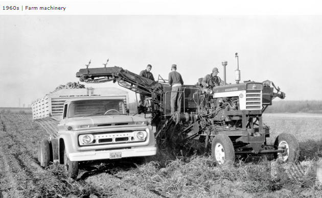 1960's Potato Farming Equipment